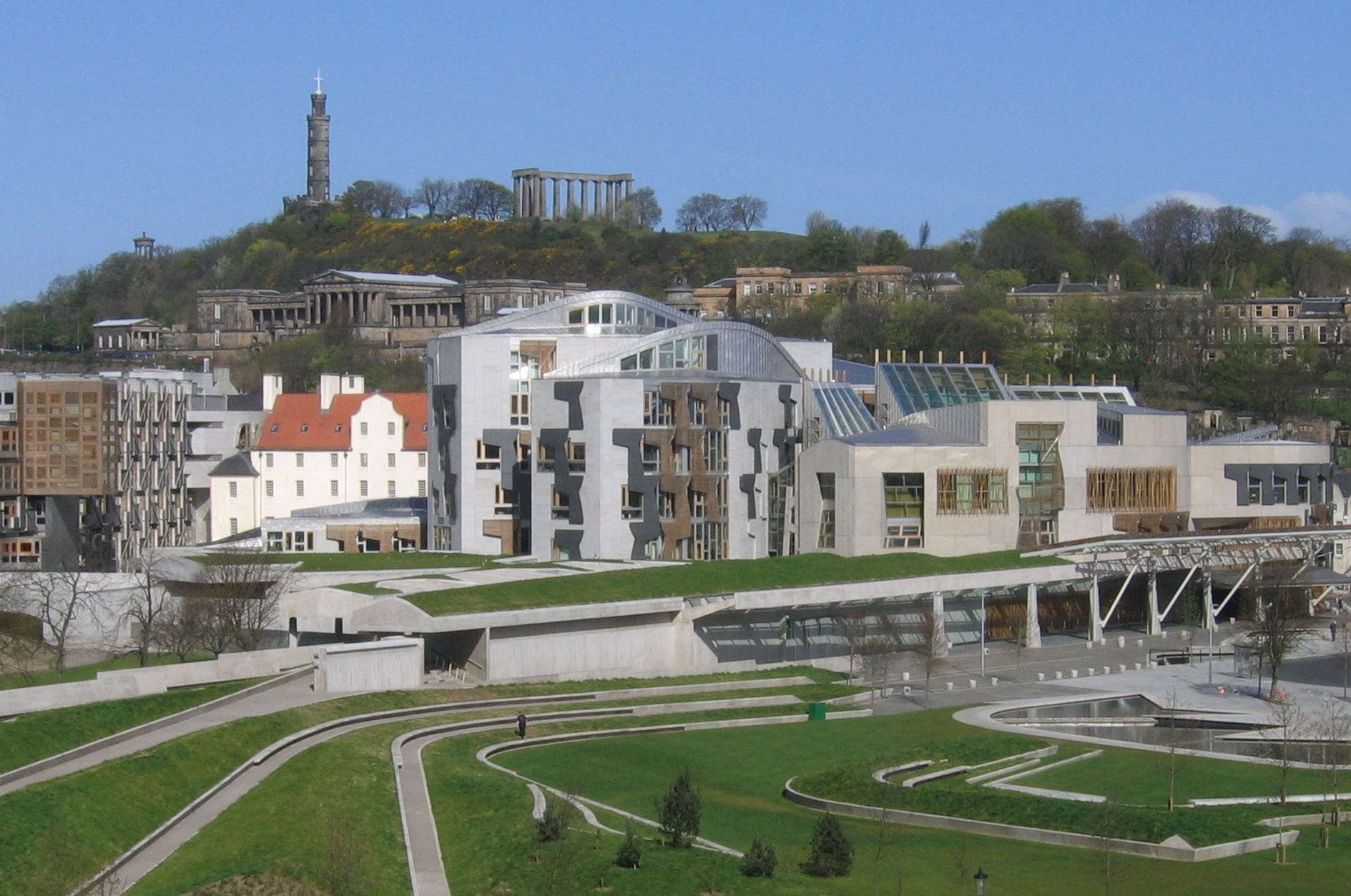 The Scottish Parliament in Edinburgh seen from halfway up Salisbury Crags, just below the Radical Road. On the left is the wing with the thinking pods. Just above Queensberry House, the white old building with the bright red roof incorporated into the parliament site, is the Royal High School, a prior candidate for housing the parliament, on the slope of Calton Hill with the tower of Nelson's Monument and the National Monument on top. Based on own photo taken 29 April 2006. Vertical object features vertically aligned with hugin. Pretty much a crop of Image:Edinburgh Scottish Parliament01 2006-04-29.jpg but cropped from the hugin TIFF output having processed the original file Image:Edinburgh Scottish Parliament00 2006-04-29.jpg.